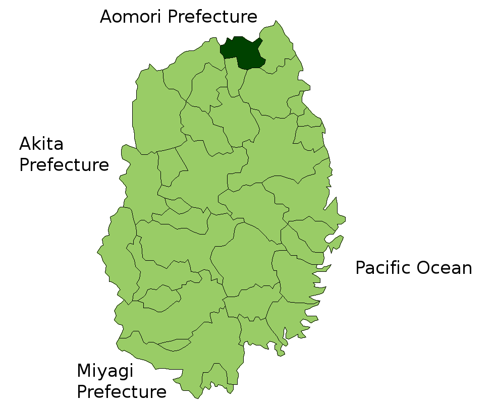 Location Map of Karumai in Iwate Prefecture, Japan